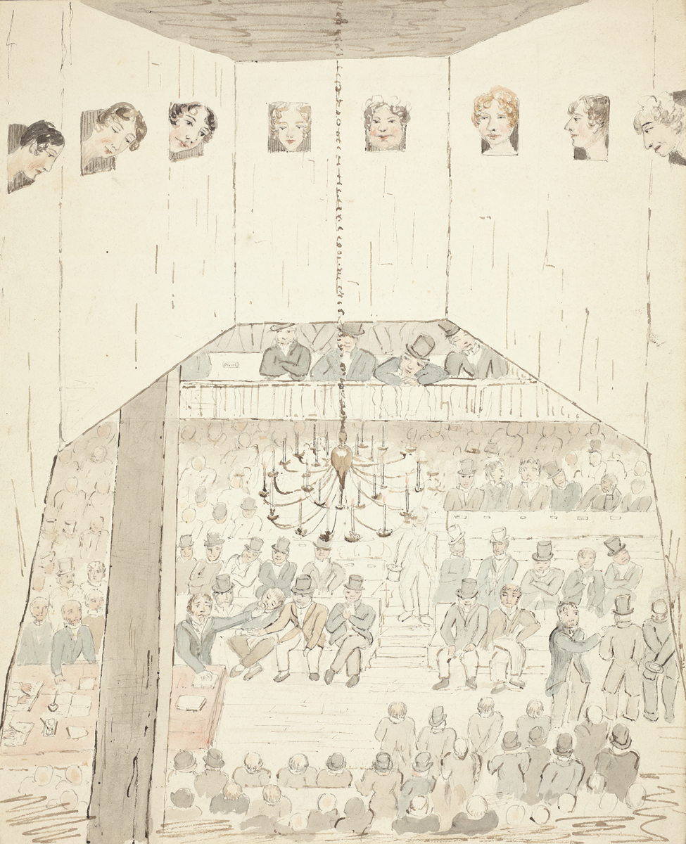 This a drawing that shows women peeking through ventilators in the ceiling of the House of Commons, listening in on a Parliament session in progress